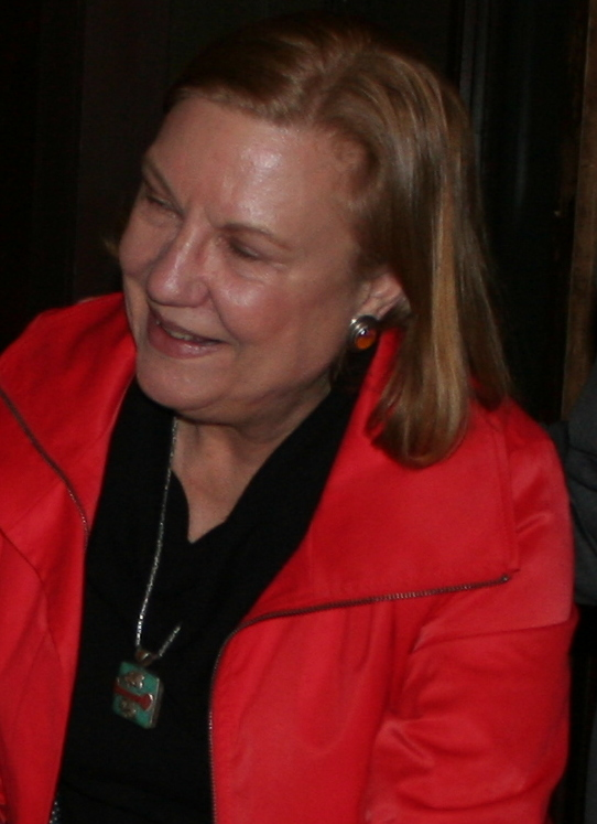 King County Councilmember (and before that Seattle City Councilmember) Jan Drago celebrating the 100th anniversary of Georgetown's Annexation by Seattle.